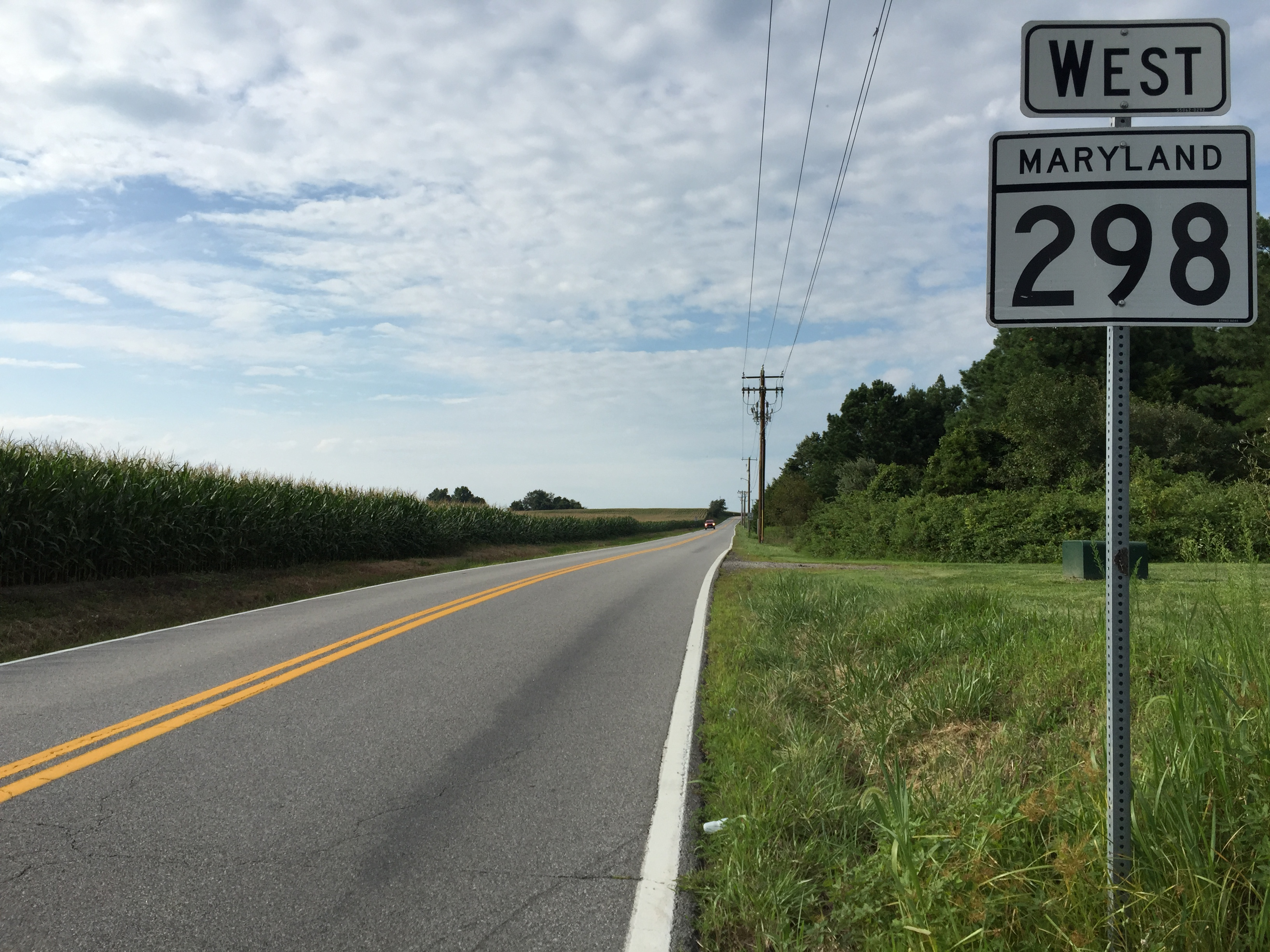 View west along Maryland State Route 298 (Cherry Lane) at Maryland State Route 291 (River Road) in Chesterville, Kent County, Maryland